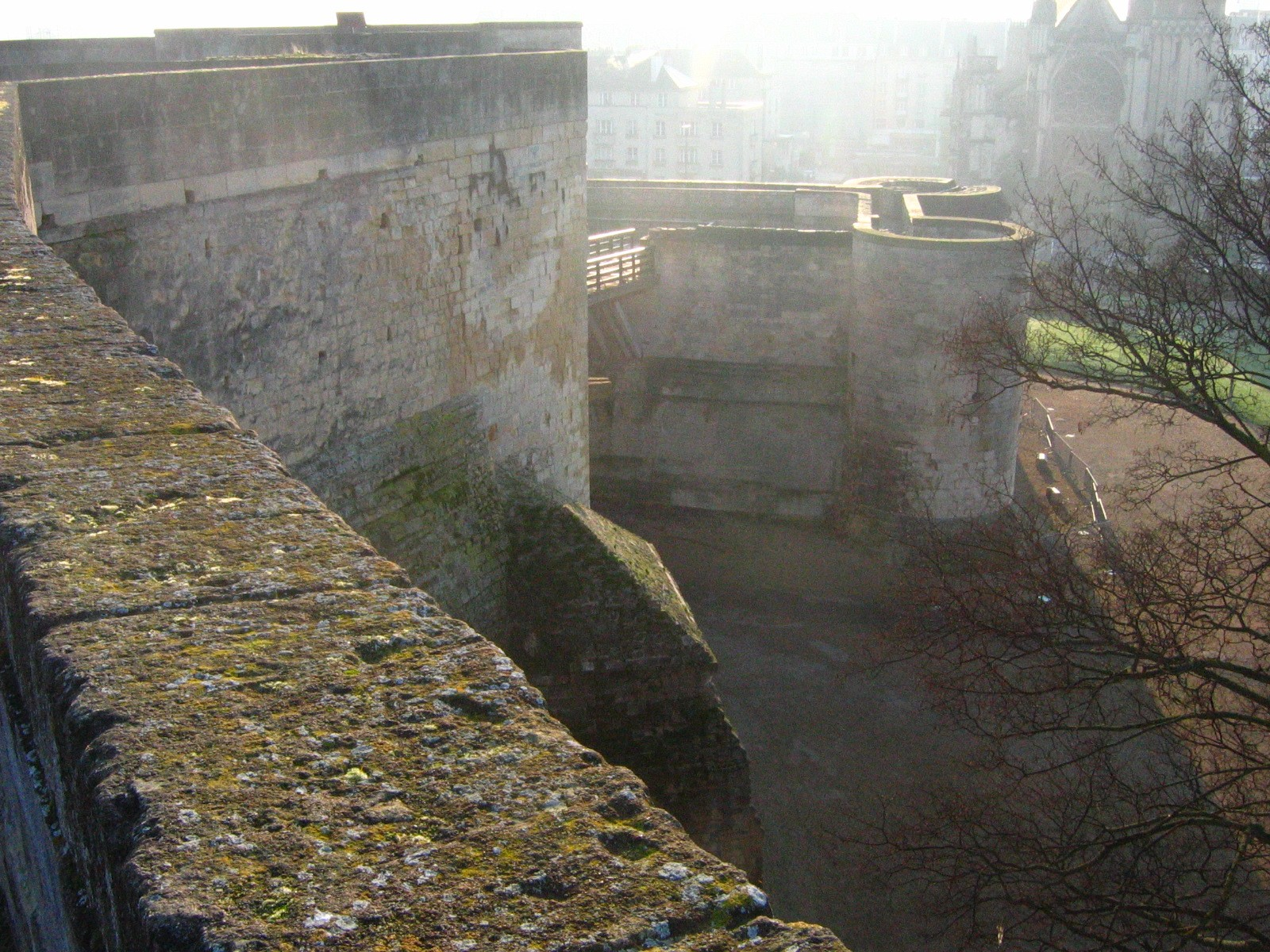 Castle of Caen, path round the battlements.